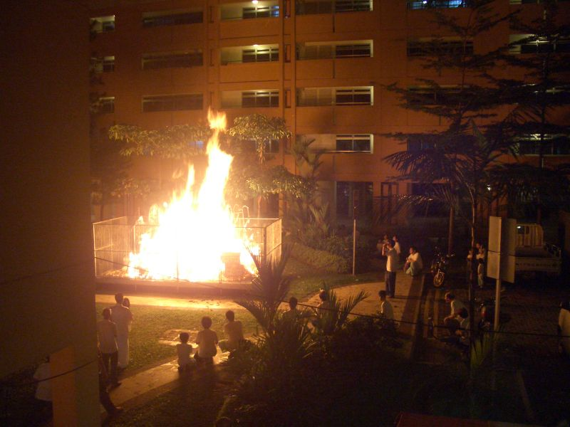 Chinese people in Singapore sending off the dead by burning offerings.